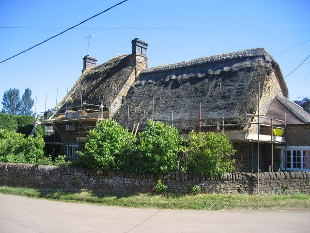 Thatching in Chacombe. The thatcher has just started to place the new thatch on this cottage in Silver Street.